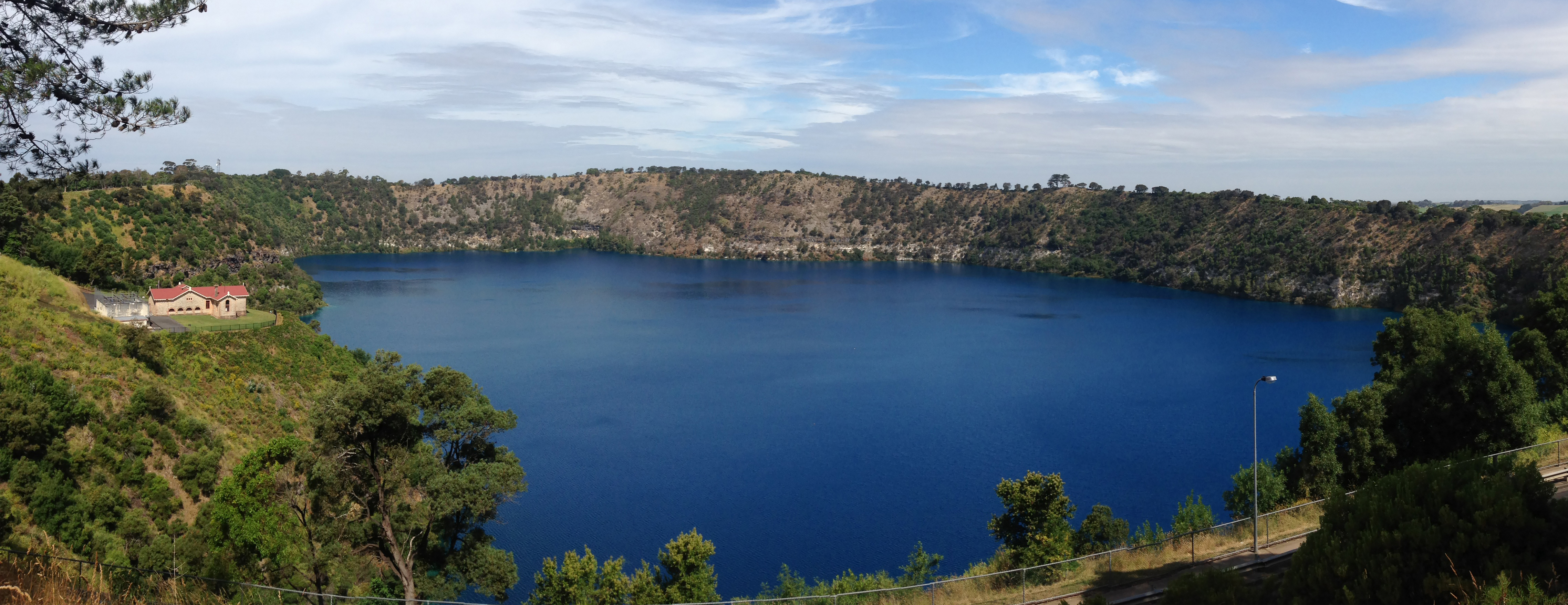 Mount Gambier's BLue Lake, taken in late-December of 2016. Image is taken from a peaked viewing platform to the North-West of the lake.